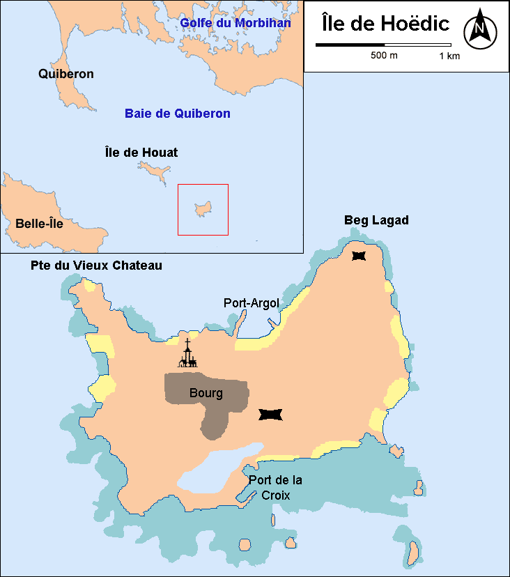 Description : Island of Hoëdic Place : Baie de Quiberon, Bretagne, France Date : Juin 2006 Author : Réalisation Pline